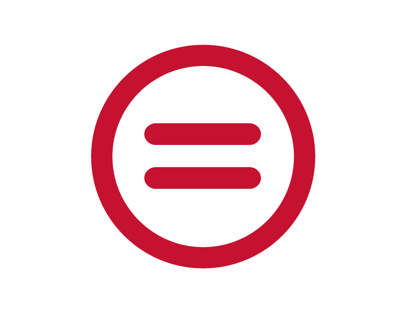 Logo of the National Urban League